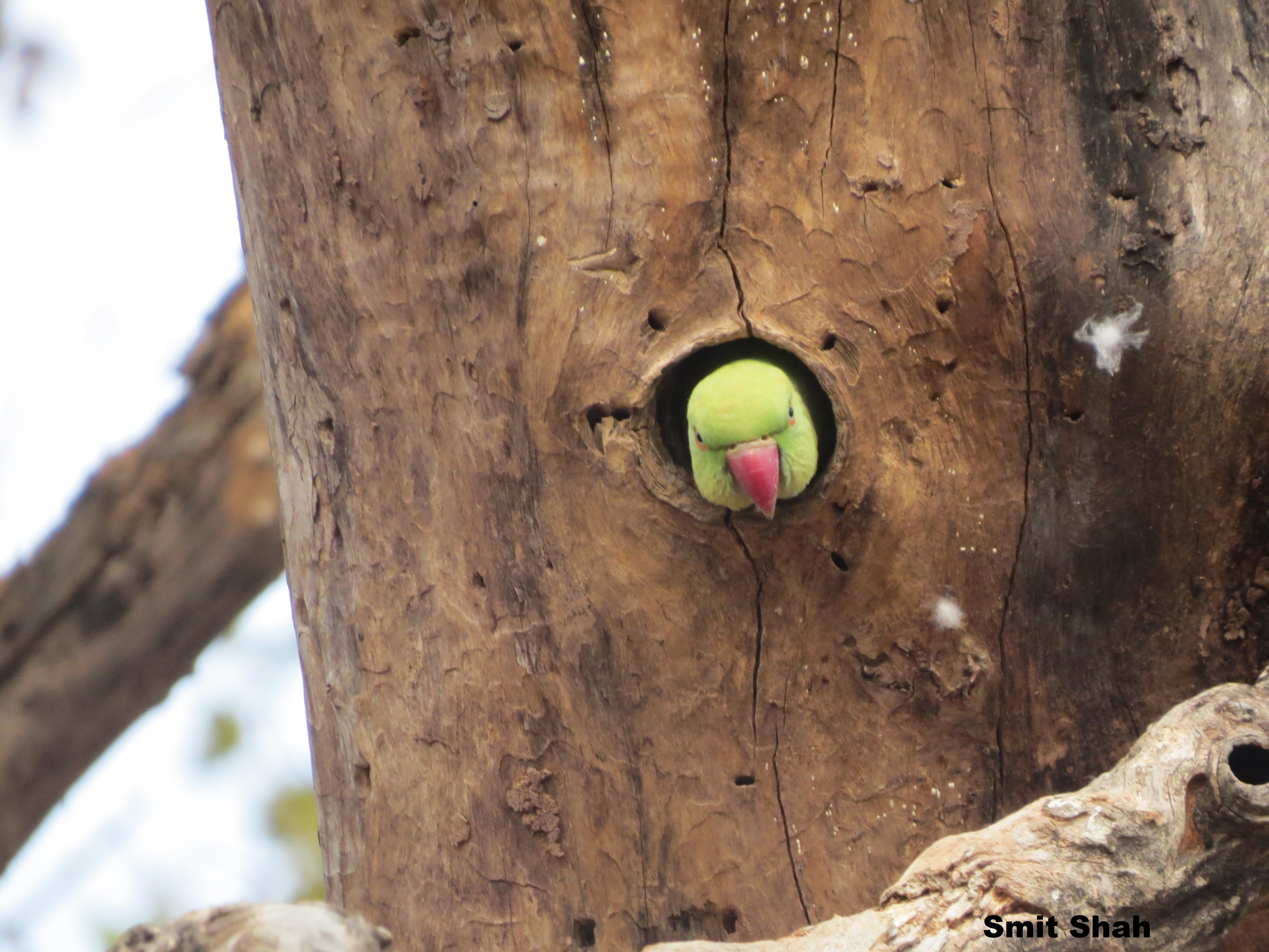 WHOM IS TRYING TO FIND ME AND I AM HERE TO POSE FOR YOU. THE ENDANGERED SPECIES OF PARAKEETS WHICH I WAS LUCKY TO SPOT PEEPING FROM THIER NEST.